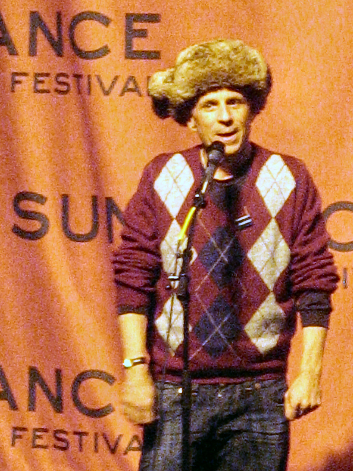 Bobcat Goldthwait at the 2006 Sundance Film Festival